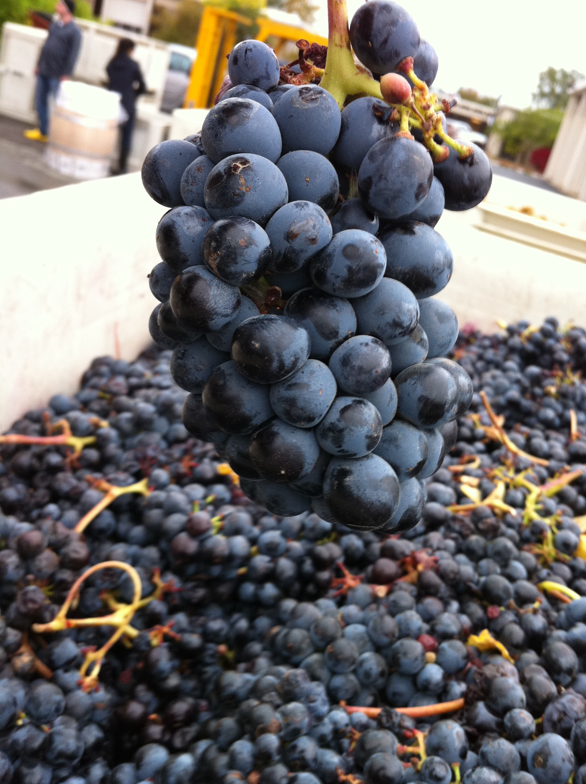 Cluster of Blaufrankisch/Lemberger grapes grown in the Columbia Valley of Washington State.